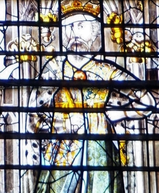 Detail of King Ine depicted in the Transfiguration Window of Wells Cathedral. The window was produced over the period 1925-31 by Archibald Keightley Nicholson (1871–1937).